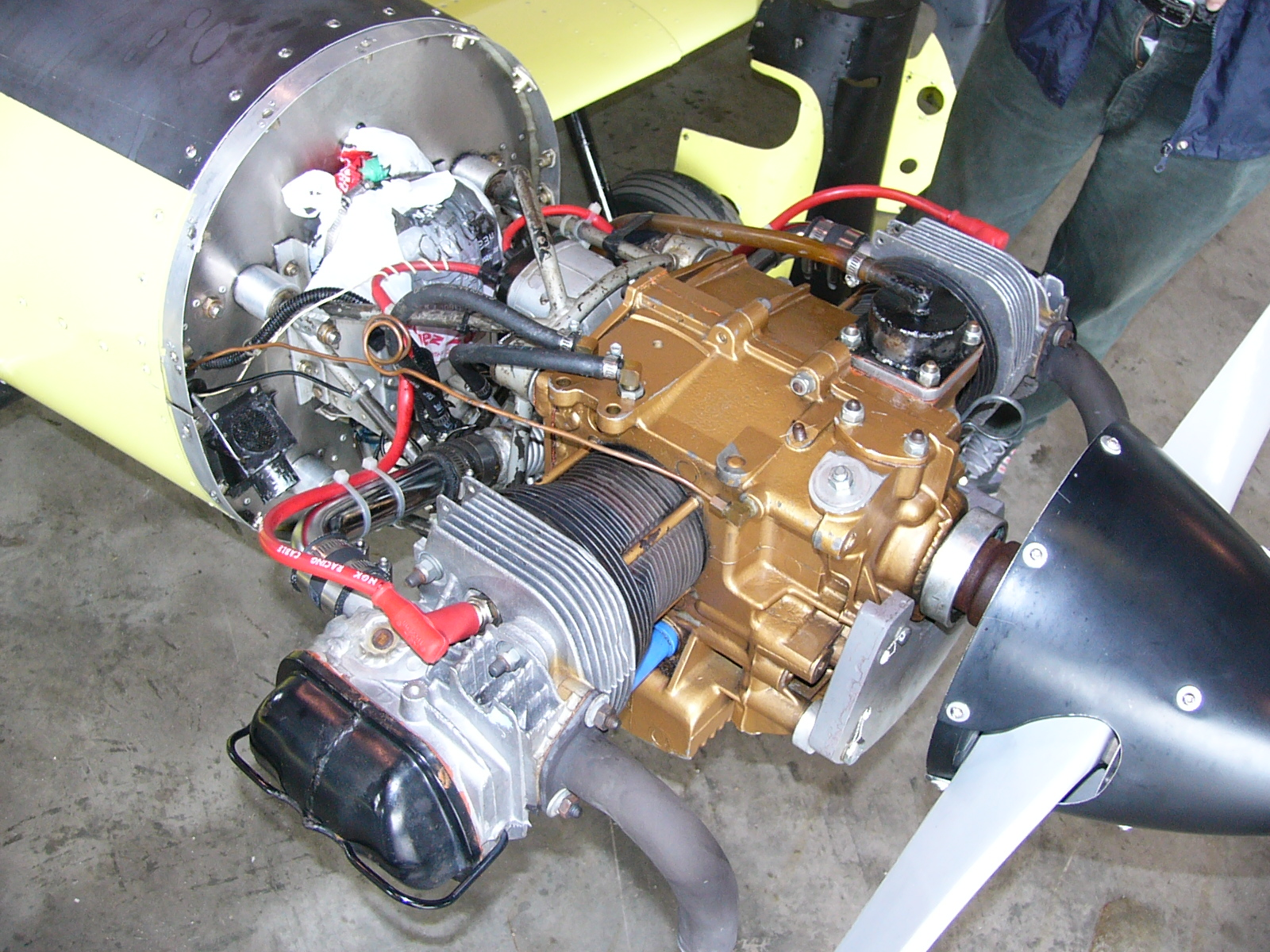 A 1/2 VW engine mounted in a Hummel Bird at Les Faucheurs de Marguerites, Sherbrooke, Quebec, Canada